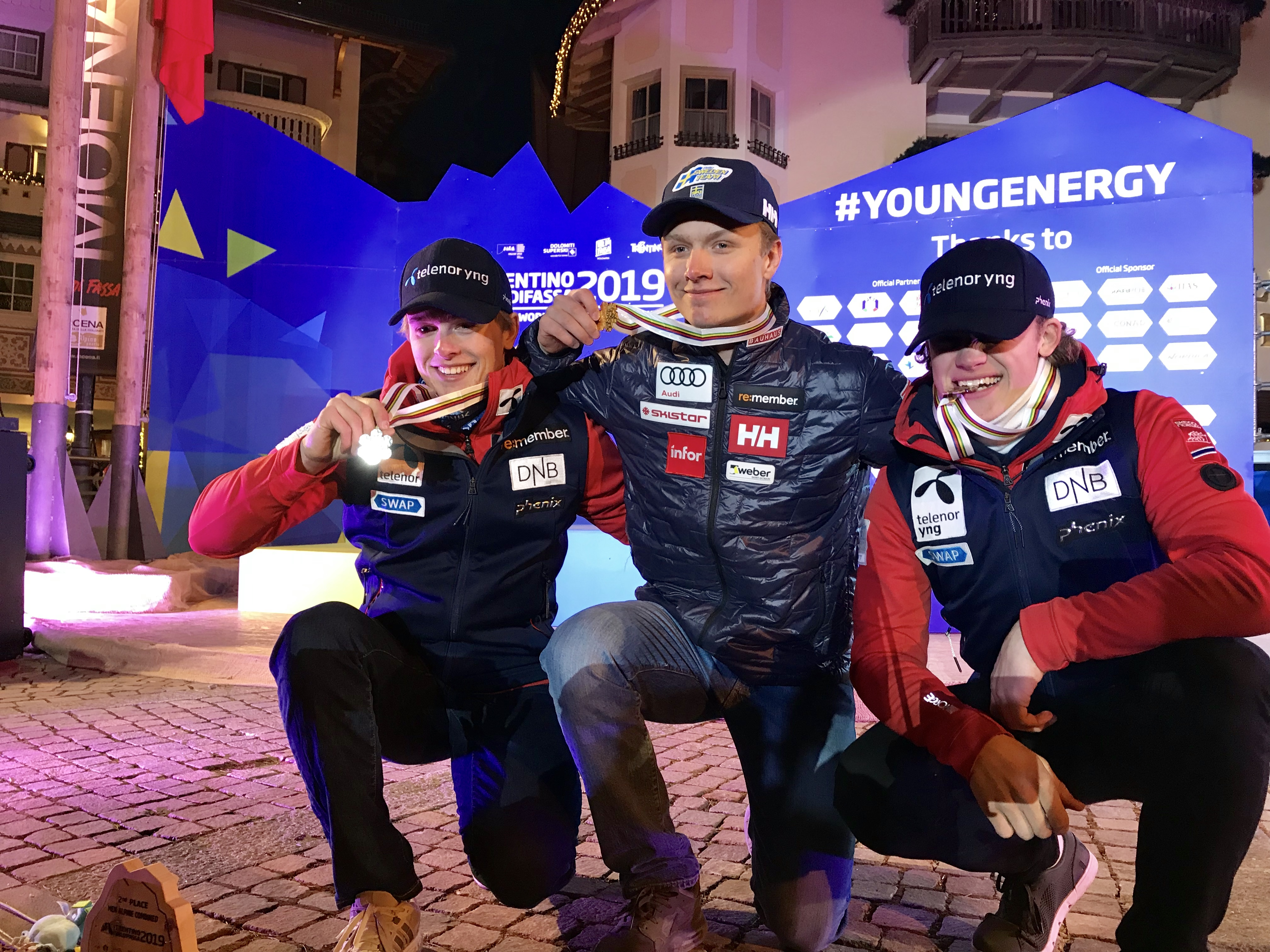 Medal winners of the combined race at the 2019 World Junior Alping Skiing Championships. From left to right: Atle Lie McGrath (NOR), Tobias Hedström (SWE), Lucas Braathen (NOR)